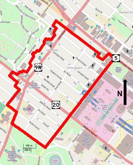 Map of Center Square/Hudson–Park Historic District, Albany, NY, USA This map may be incomplete, and may contain errors. Don't rely solely on it for navigation.